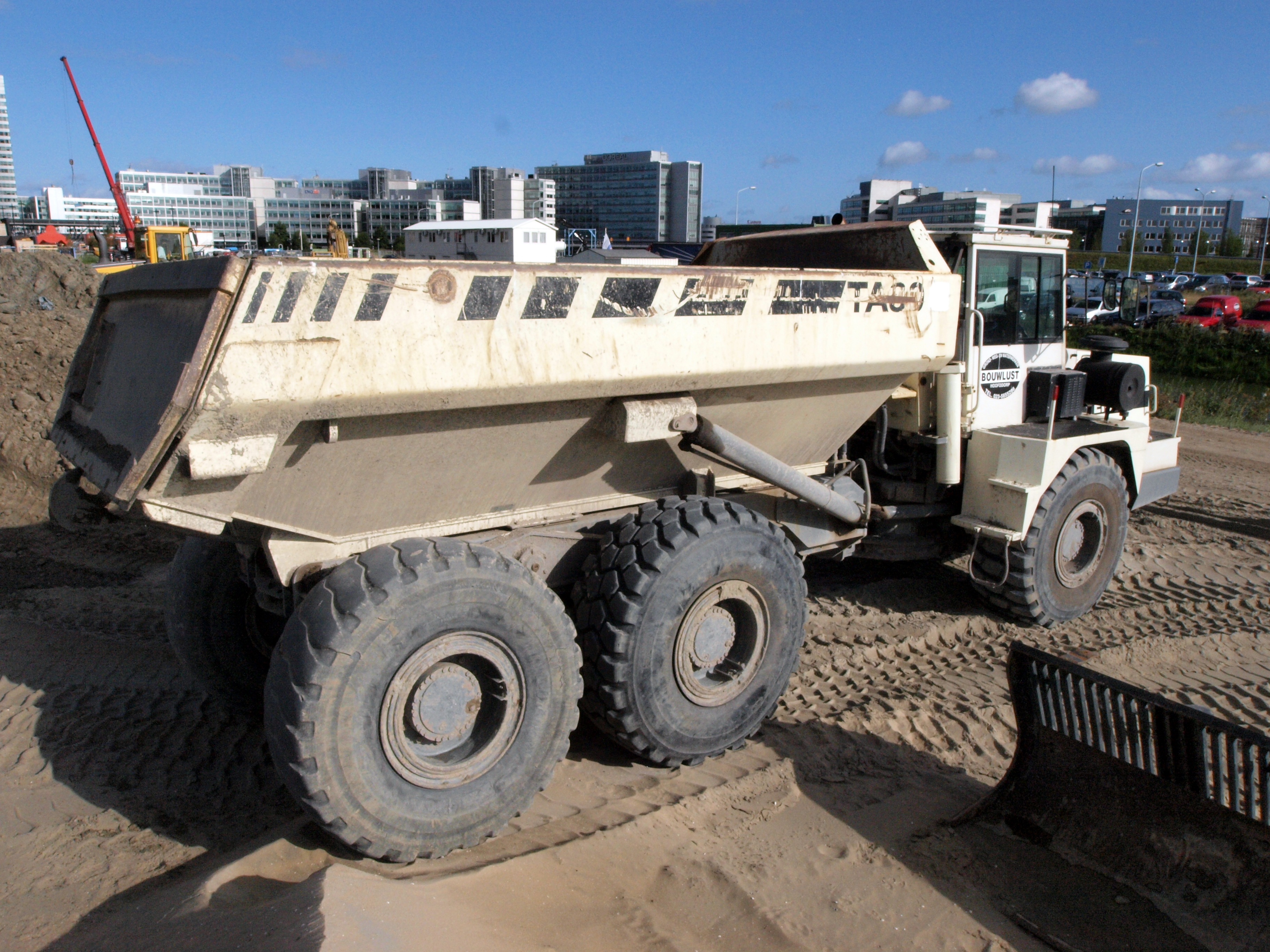 Terex TA30